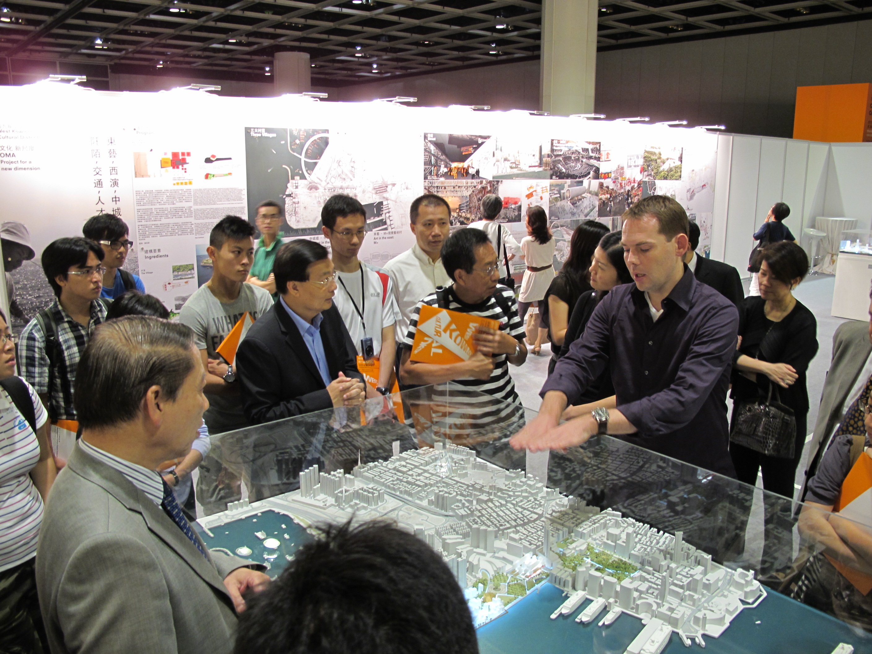 WKCD 2010 Project for a New Dimension Presentation